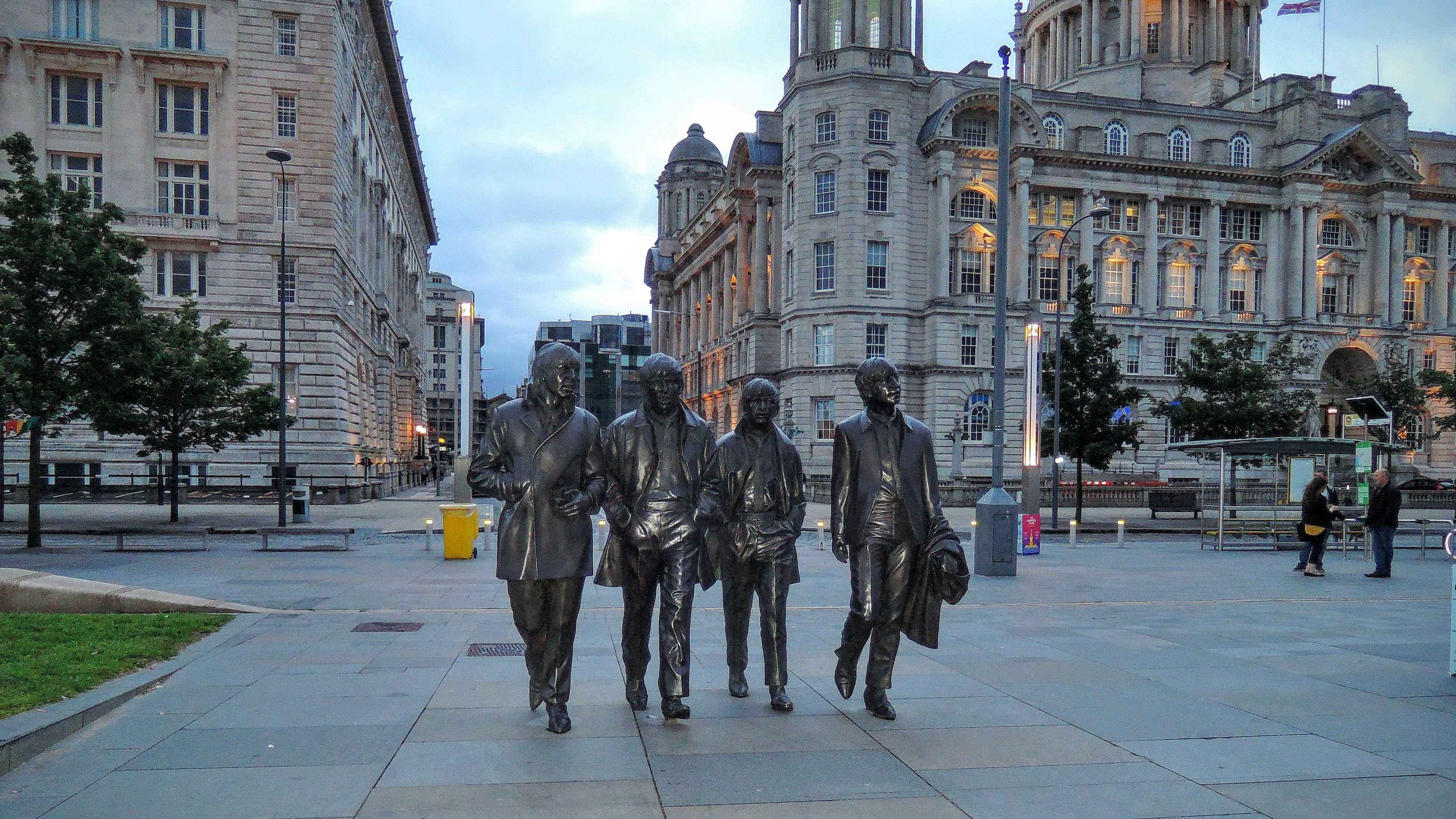 Liverpool, UK